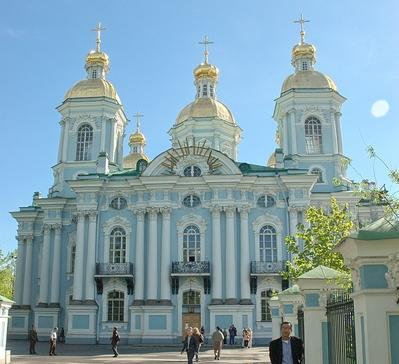 St. Nicolas Cathedral in Saint Petersburg.